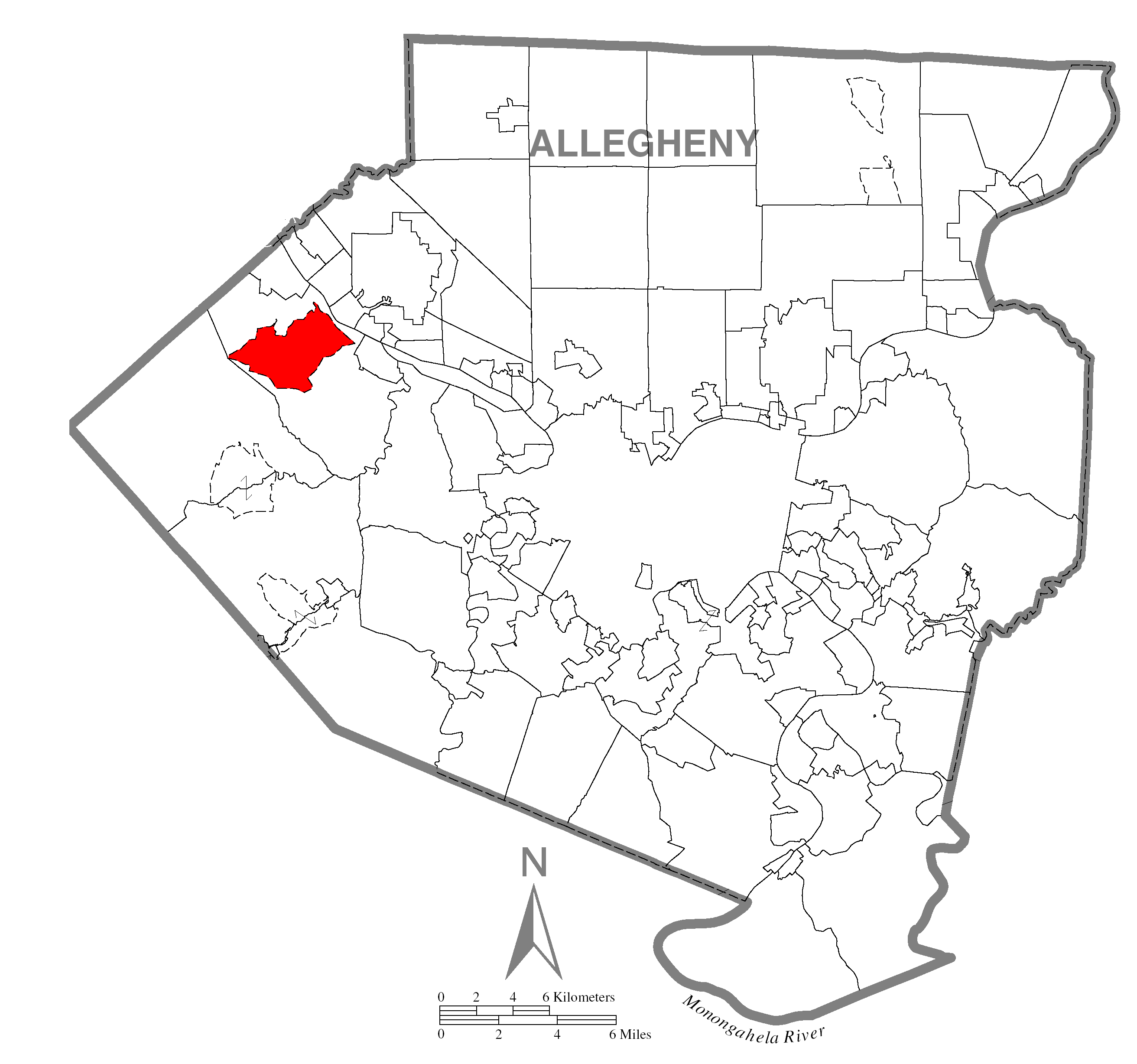 A map of Allegheny County showing Carnot-Moon, Pennsylvania (alternate) highlighted on the map.